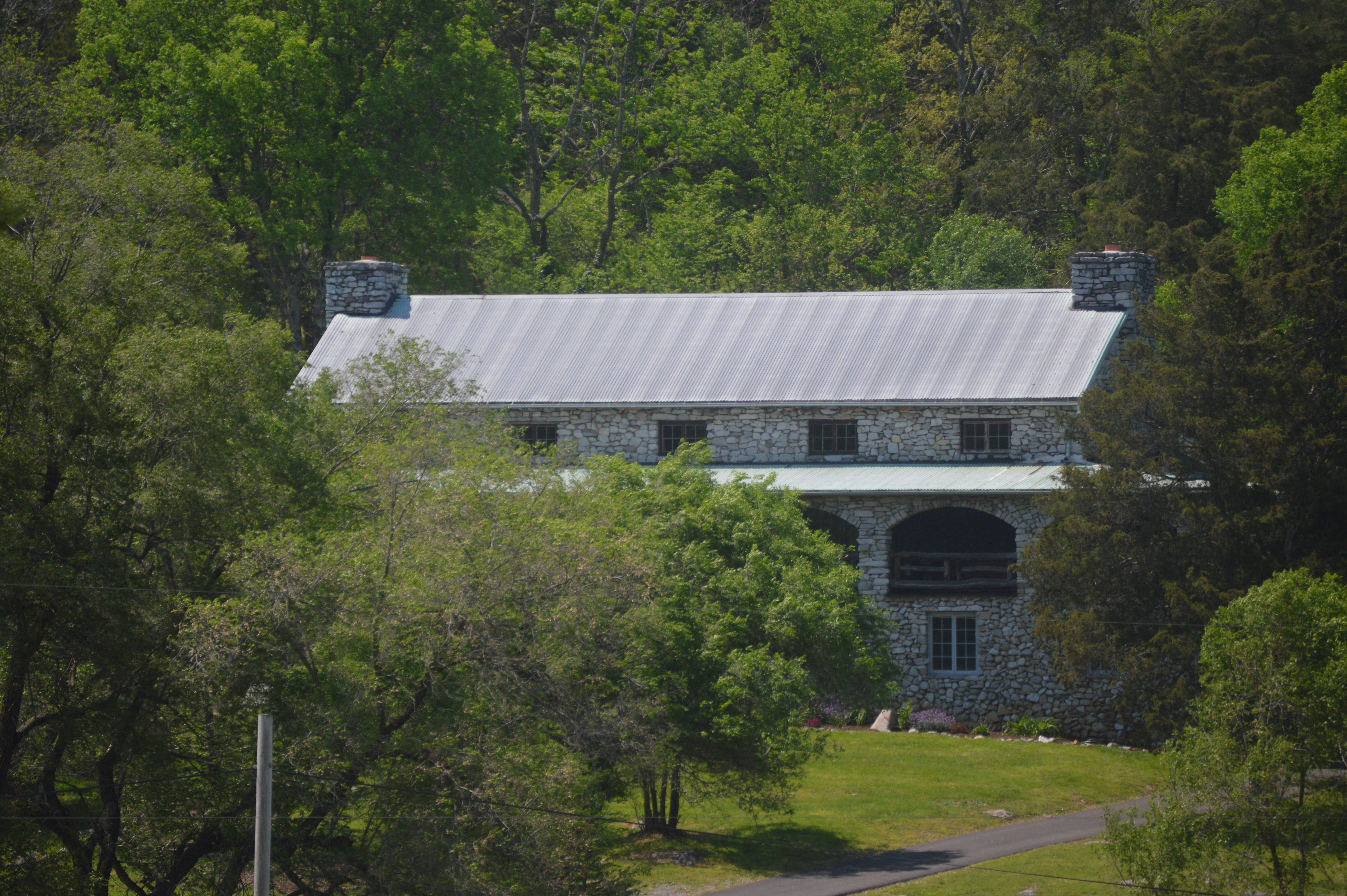 Roadside view of the Melrose Lodge at the Melrose Caverns and Harrison Farmstead, located at 6639 N. U.S. Route 11, south of Broadway, in Rockingham County, Virginia, United States. Built in 1929 and operated for many years as a museum of the American Civil War, it is listed on the National Register of Historic Places together with the rest of the farmstead.